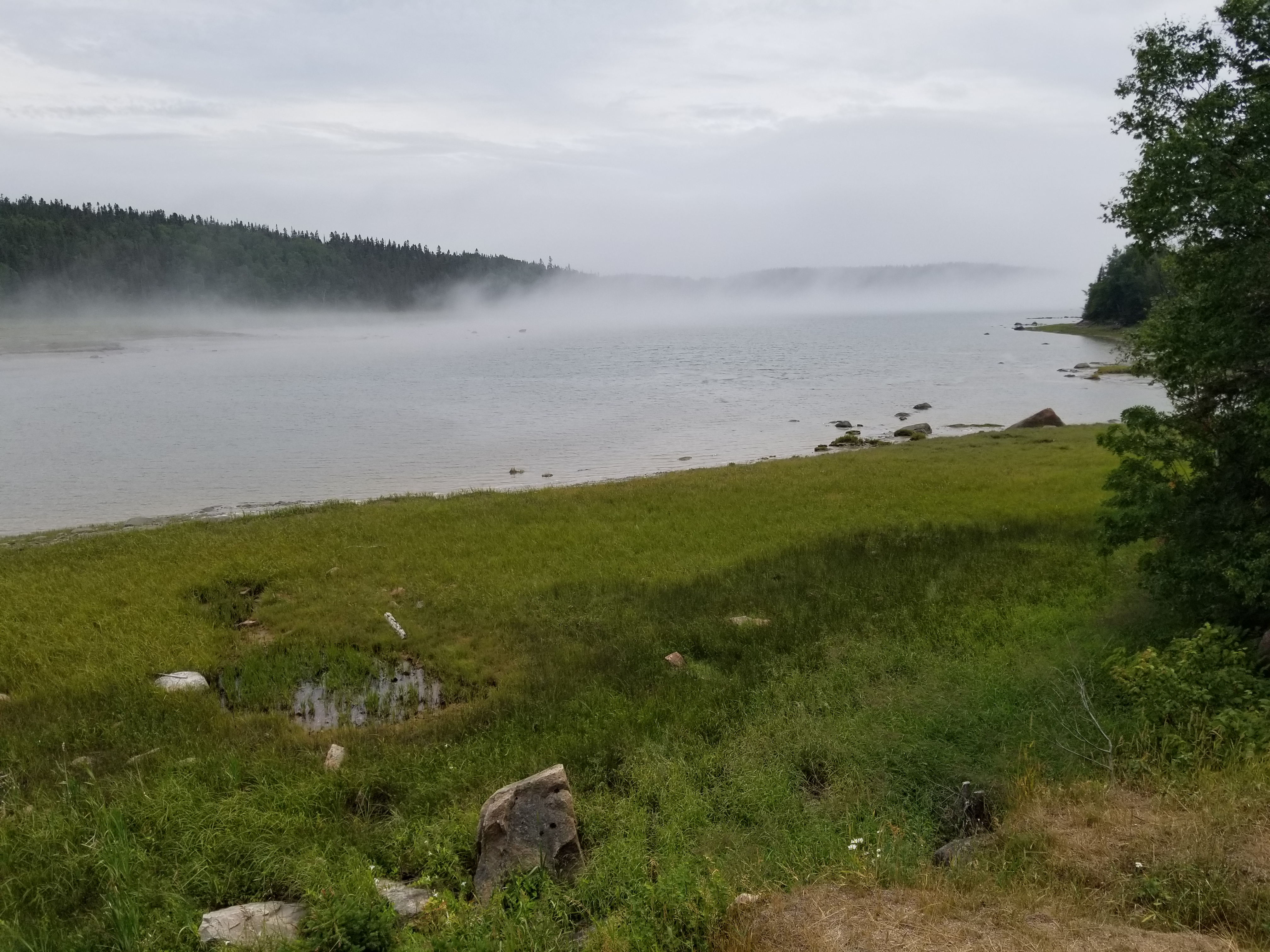 View of Baie des Grandes Bergeronnes from Route 138 in the Grandes-Bergeronnes sector.